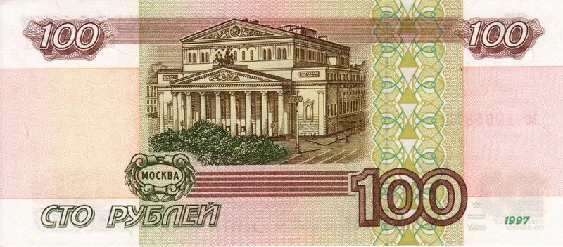 Russian banknote. 100 rubles. Version of 1997 year. Back